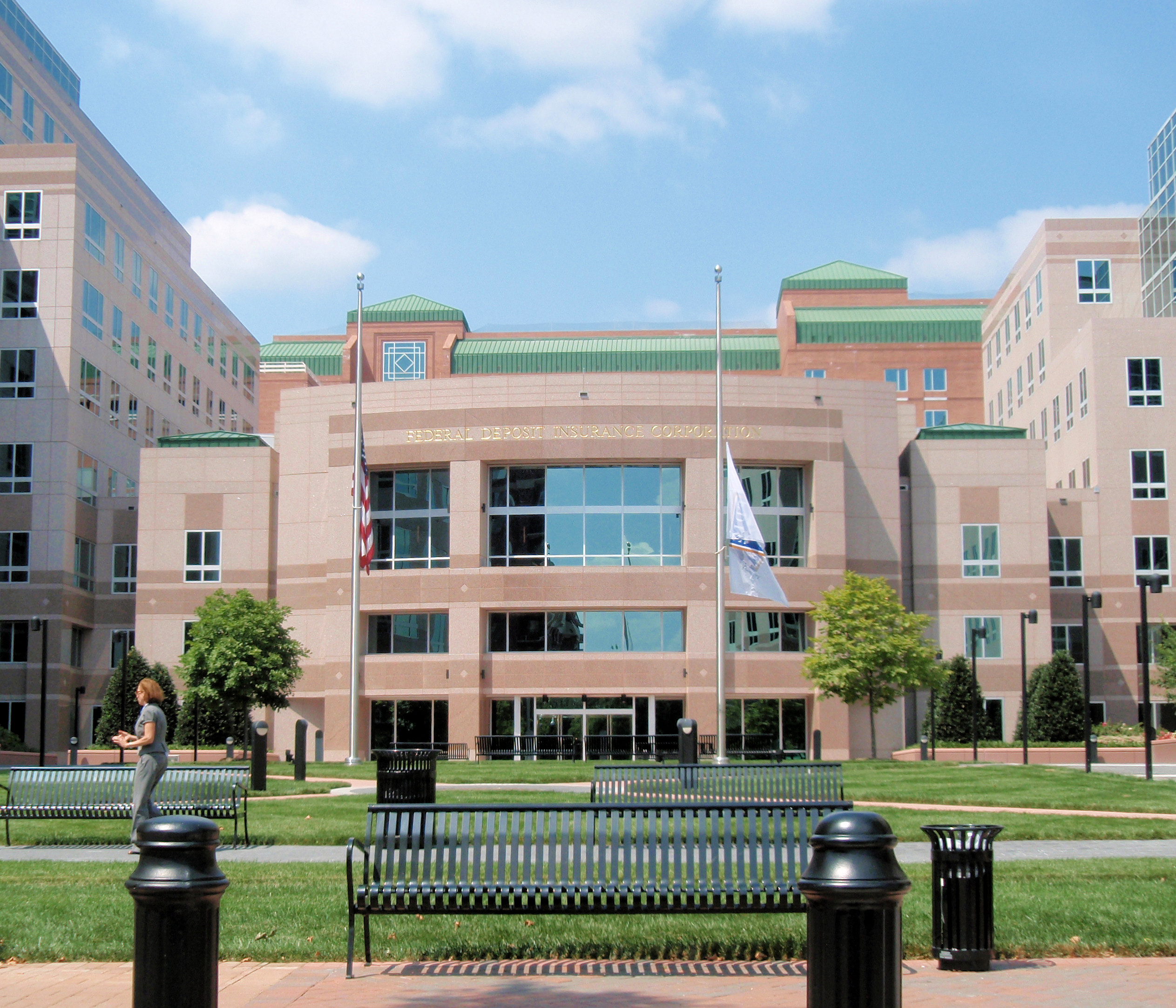 The Federal Deposit Insurance Corporation's satellite headquarters campus in Arlington. Although nearly all of FDIC's most senior officials work at the main building in Washington, D.C., this campus is home to many administrative and support divisions, as well as the FDIC's training facility.